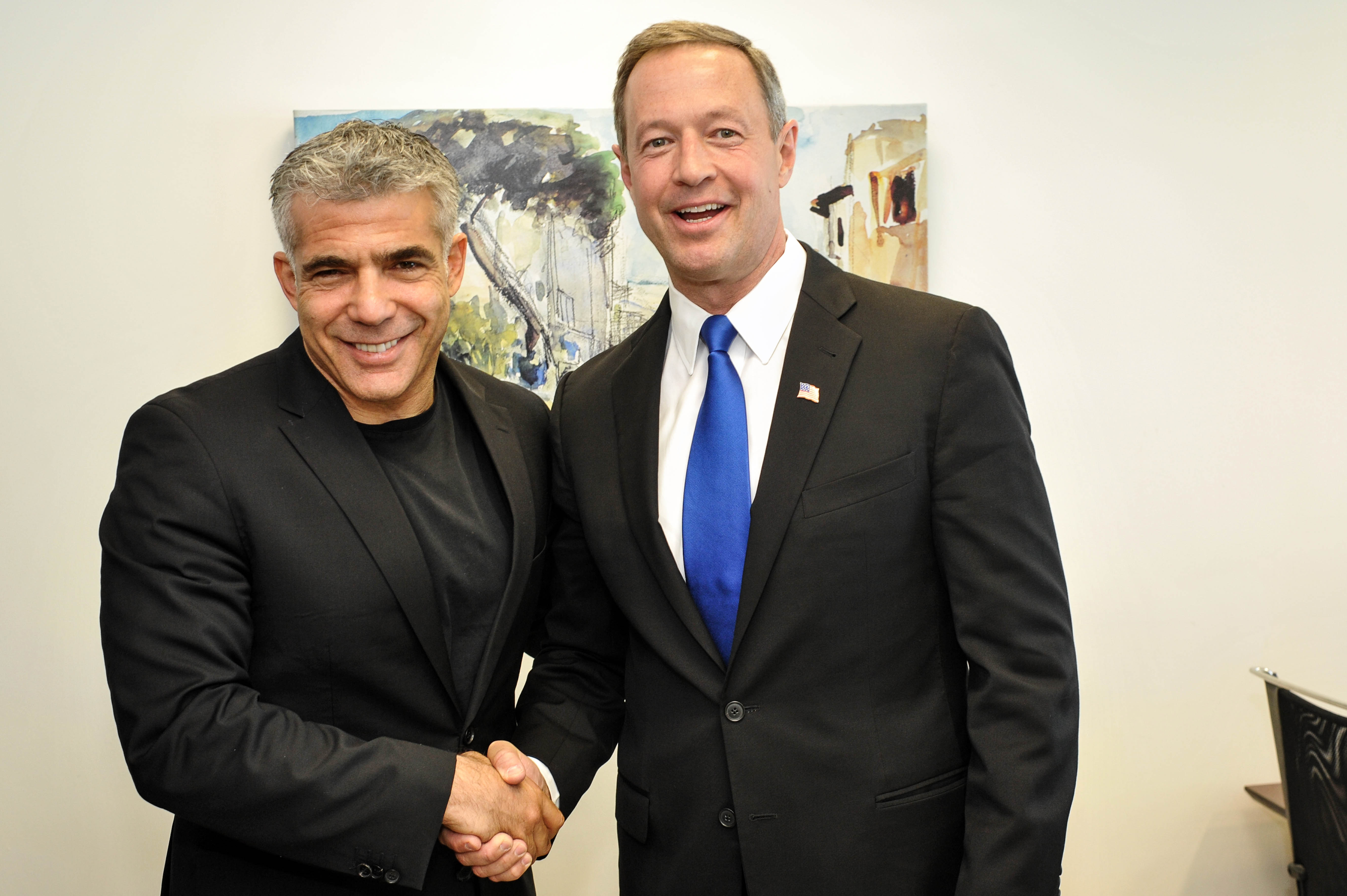 Tel Aviv Stock Exchange, Yair Lapid, US Ambassador, Reception by staff at Israel